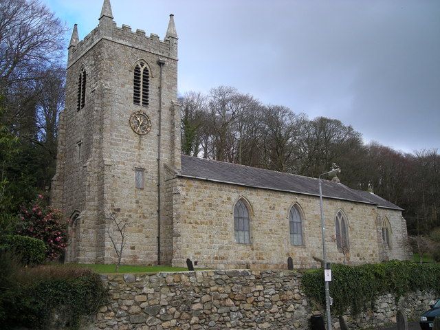 Eglwys Cyngar Sant Cyngar Sant Church in Llangefni.